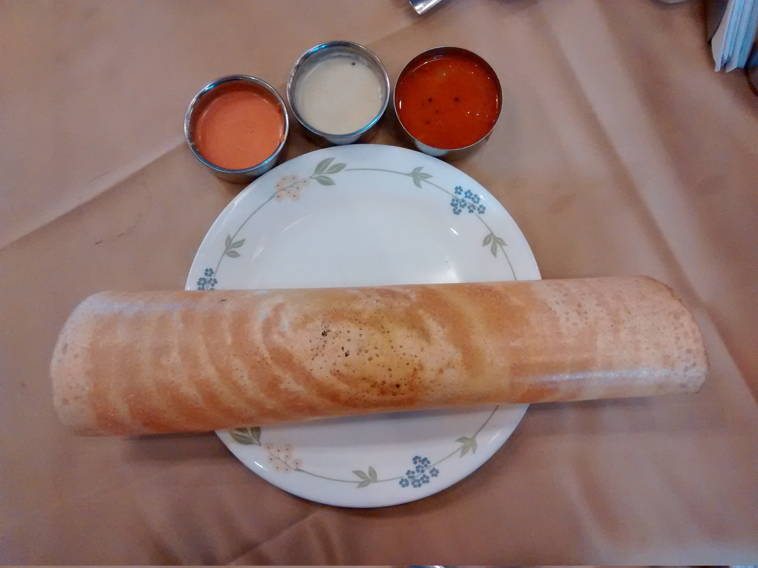 Masala Dosa from Kochi, Kerala, India